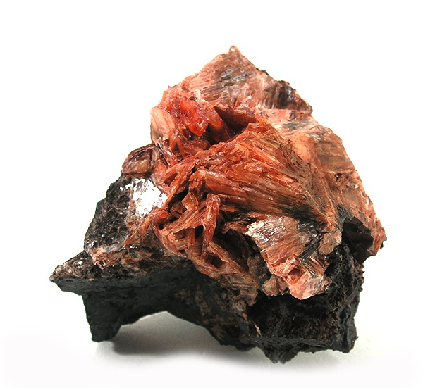 Diaspore Locality: Wessels Mine (Wessel's Mine), Hotazel, Kalahari manganese fields, Northern Cape Province, South Africa (Locality at ) Size: small cabinet, 6.9 x 5.7 x 4.9 cm Mangan-diaspore This is a rare and very interesting example of the Manganese rich variety of Diaspore , with large bladed crystals of this unusual color for the species. The piece is very rich, and a lot of the smaller crystals are terminated though many of the larger, outer crystals are contacted or incomplete.